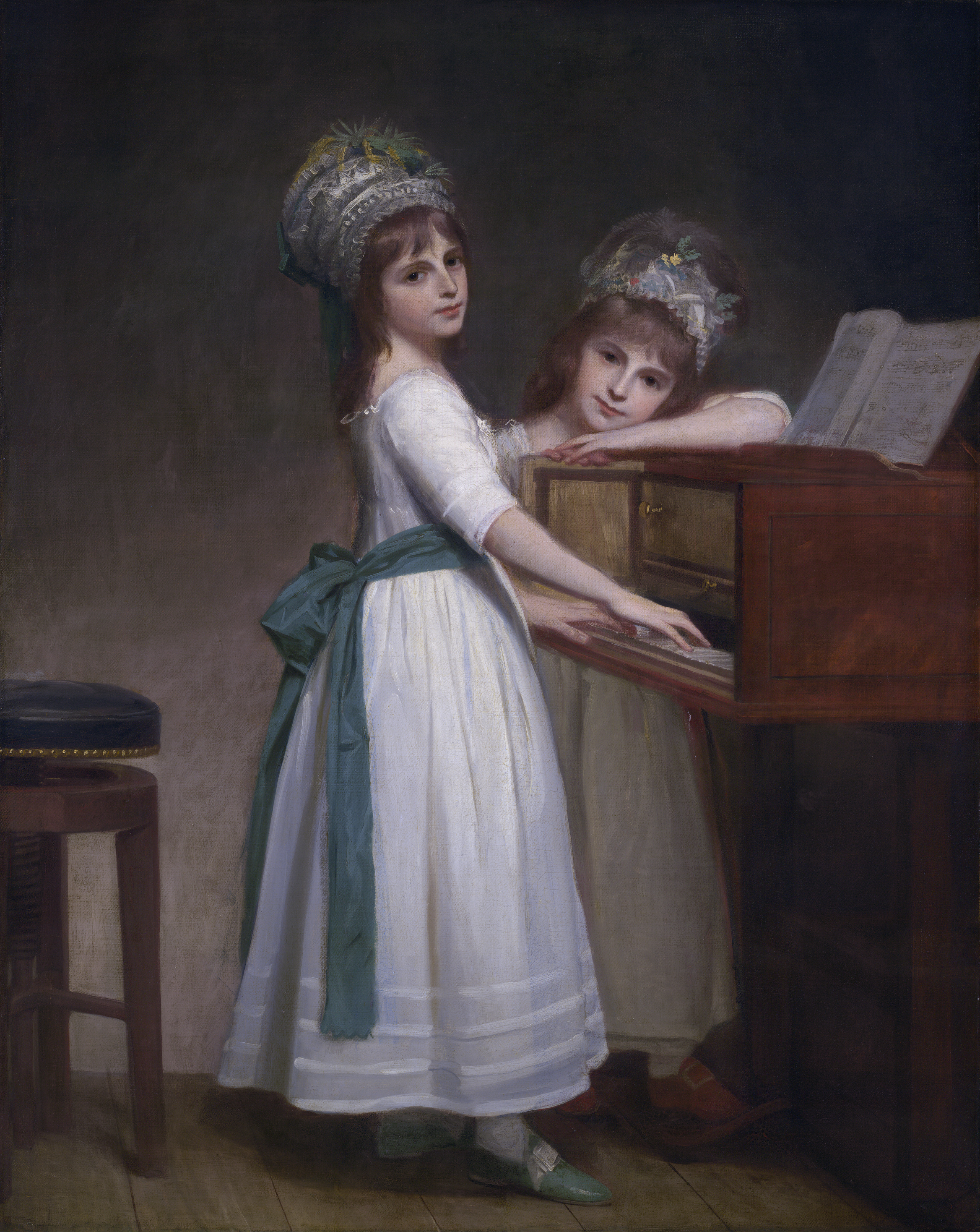 Maria and Catherine, daughters of Edward Thurlow, 1st Baron Thurlow oil on canvas 152.7 x 121.6 cm 1783